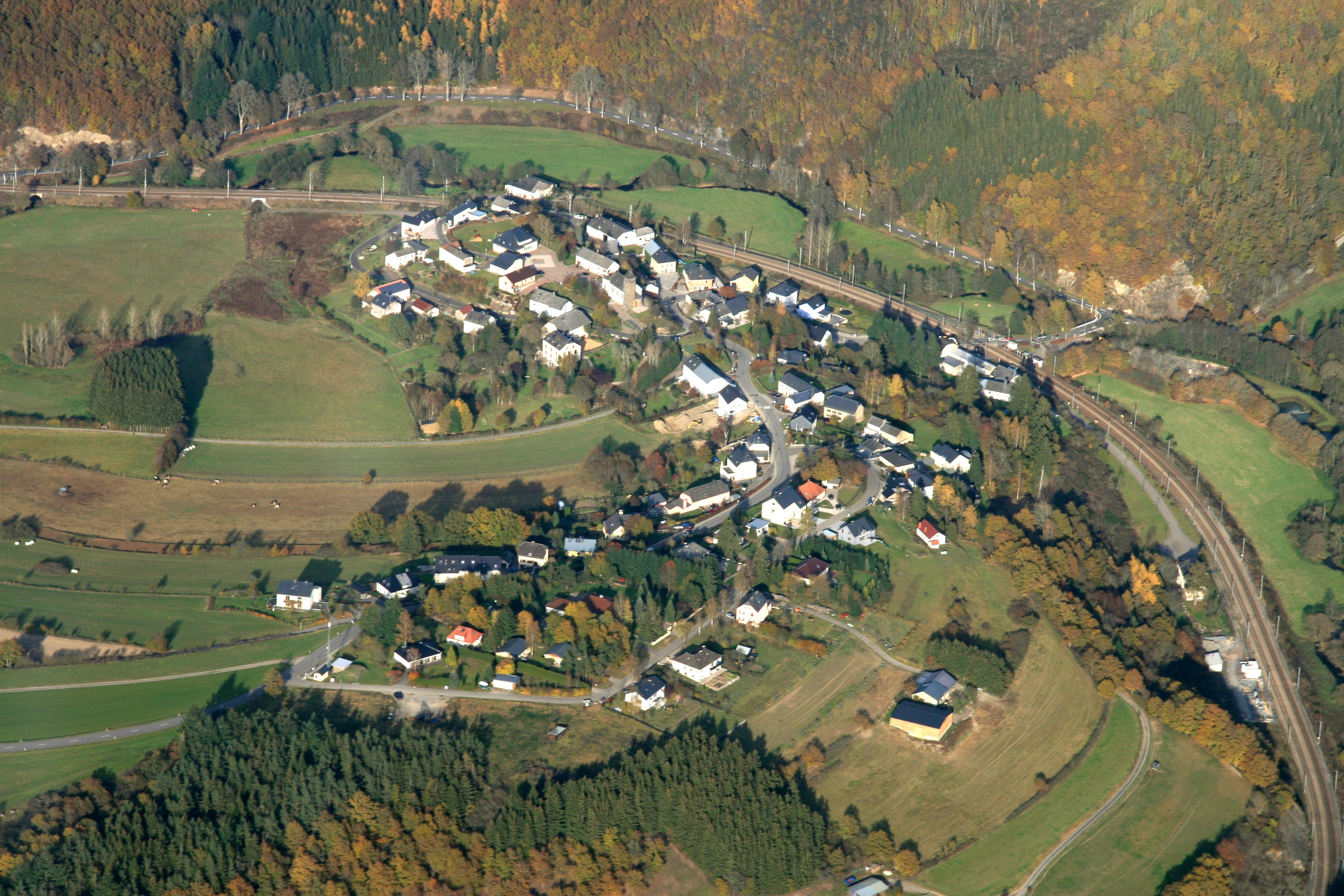 Aerial vue of Drauffelt, Luxembourg.